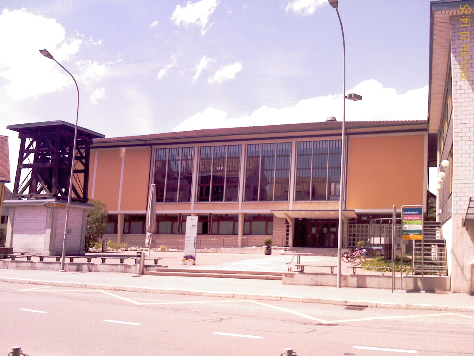 Dübendorf - protestant parish hall, canton of Zürich, Switzerland